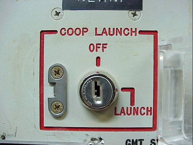 Deputy silo commander's launch key for historic Minuteman ICBM silo